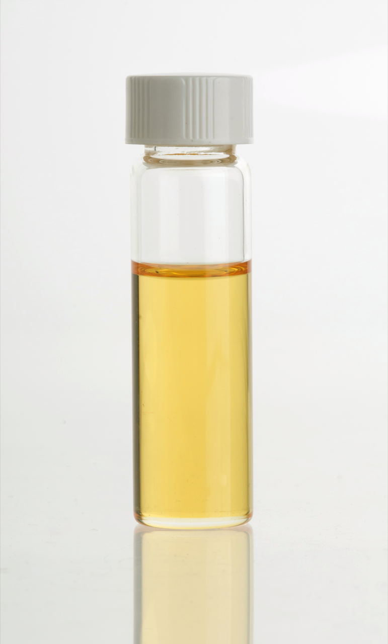 Glass vial containing Cedarwood Essential Oil